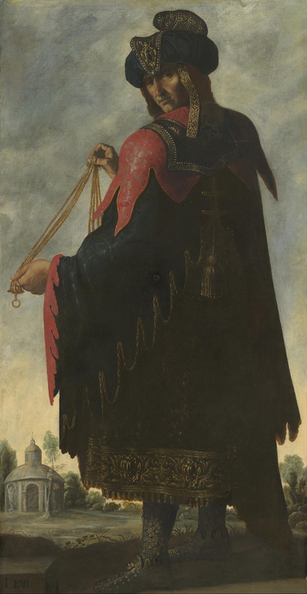 1640-1645 painting of the biblical patriarch by Francisco de Zurbarán